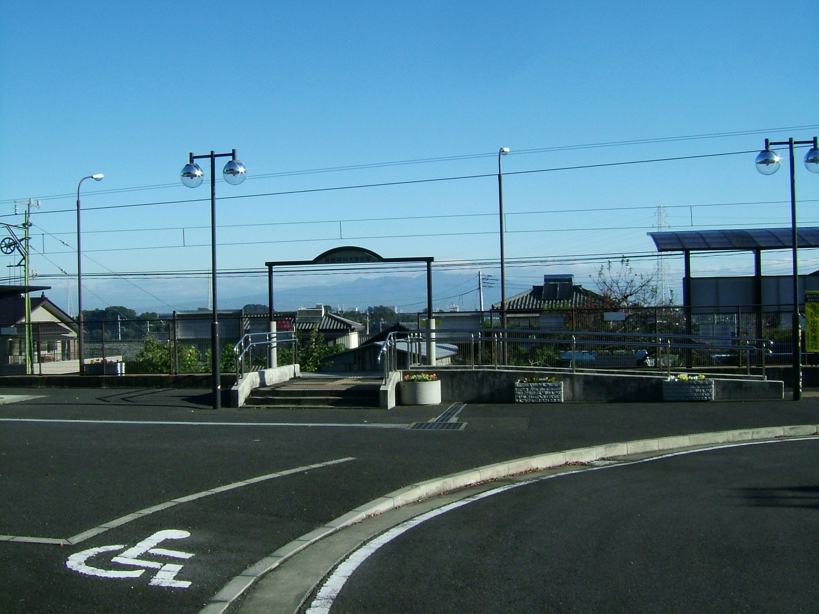 Takasaki-Shōkadaigakumae Station (Jōshin Dentetsu Jōshin Line)